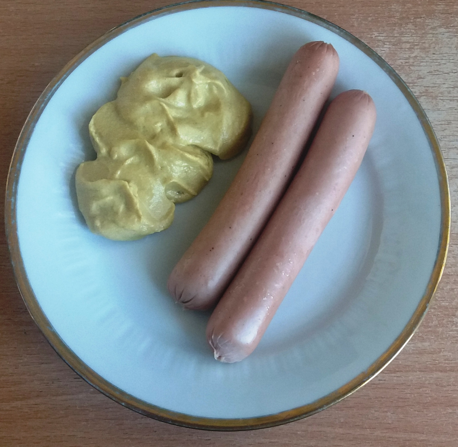 cooked sausages with mustard